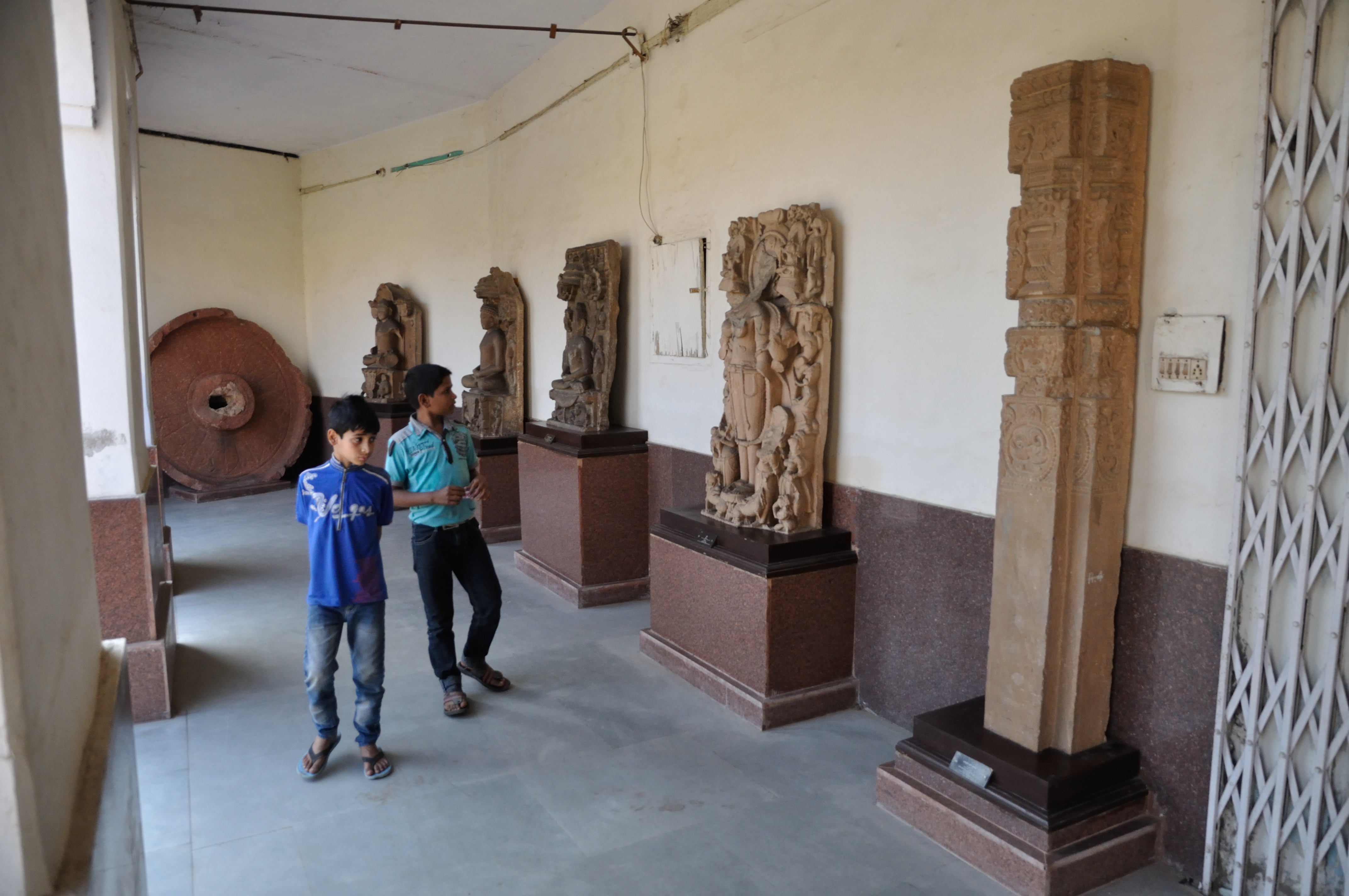 This gallery is a part of the Government Museum, (hi: Rashtriya Sangrahalaya) formerly The Curzon Museum of Archaeology, Museum Road or Murari Lal Rajpal road, Dampier Nagar, Mathura, Uttar Pradesh, India. This museum is administrating by the State Government of Uttar Pradesh of India.